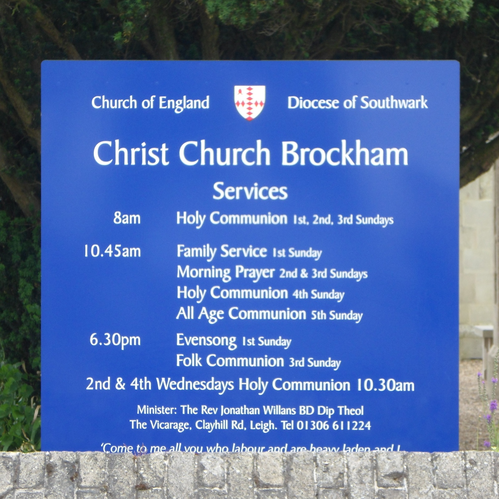 Church sign outside Christ Church parish church, Brockham, Surrey